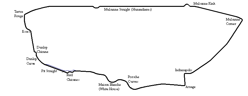 The Circuit de la Sarthe in Le Mans, France from 1990 to 2001